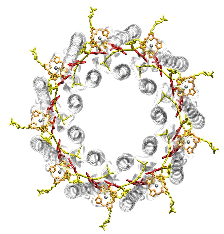 Light harvesting complex (LH2) of purple bacteria. Top view.